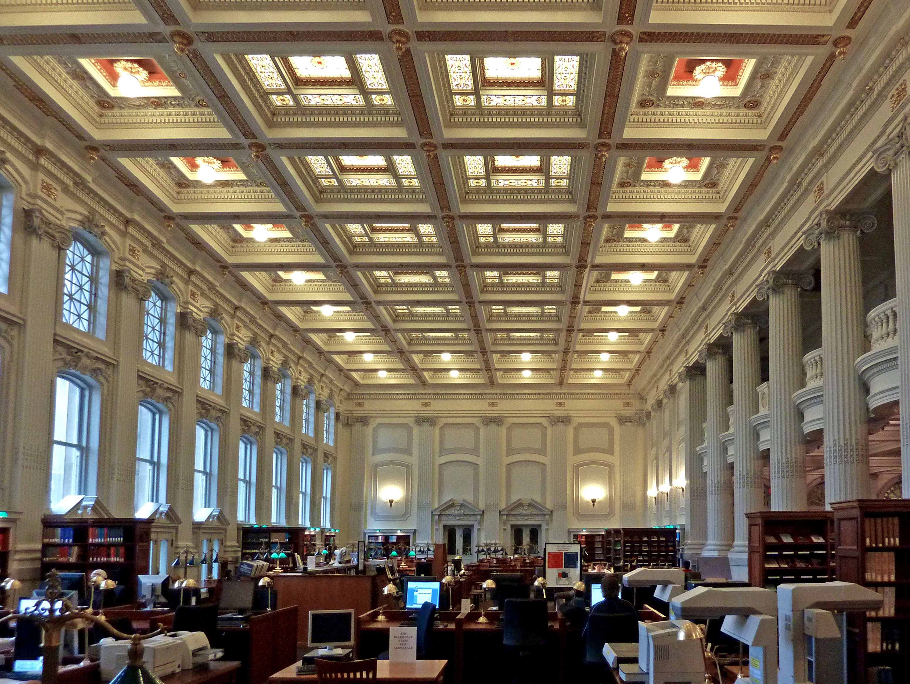 The reading room of the library of the Wisconsin Historical Society, designed by Ferry & Clas (who also designed the Milwaukee Central Library) and constructed 1896-1900, was restored in 2009-10.